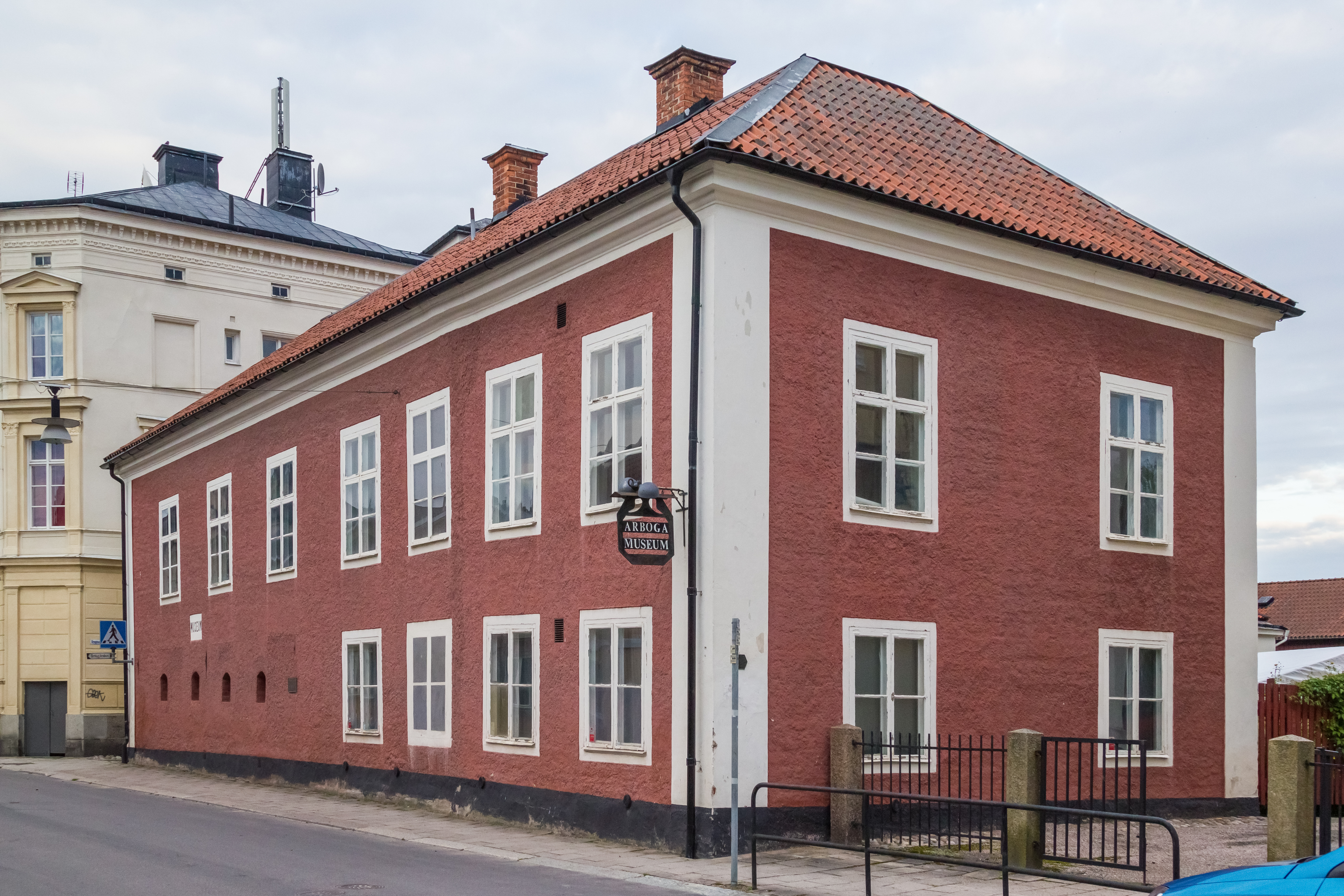 Mannerstråhleska huset with Arboga Museum (Riksföreståndaren 5; f.d. stadsäga 1469), Arboga, Sweden